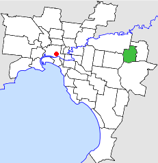 Location of the City of Ringwood within Melbourne.